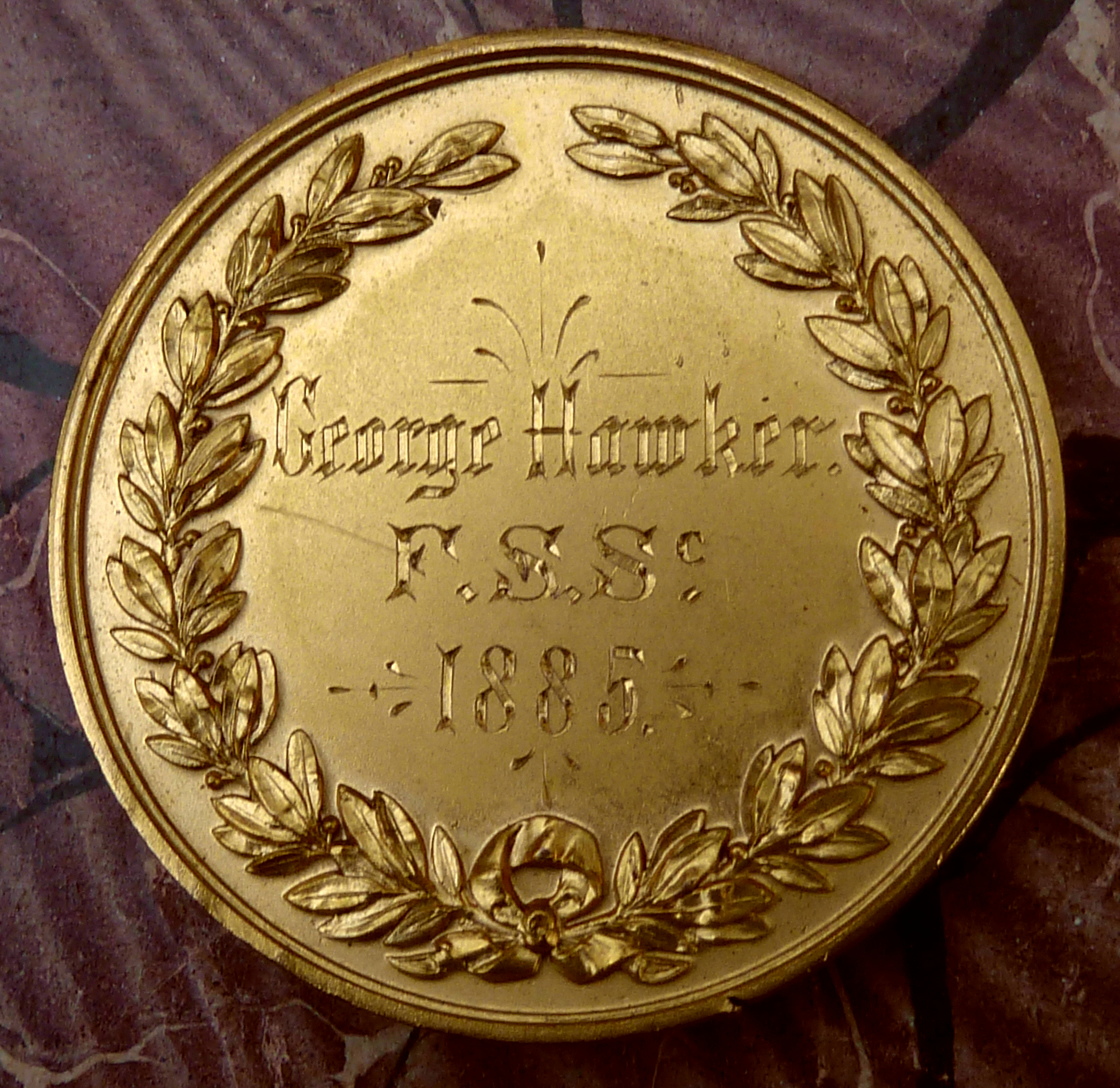 Reverse of gold-plated bronze medallion of 1885, presented by the Society of Science, Letters and Art to George Hawker. The medallion's artist is unknown. There is nothing written on the side of the medallion. Diameter 1.5in or 3.75cm.